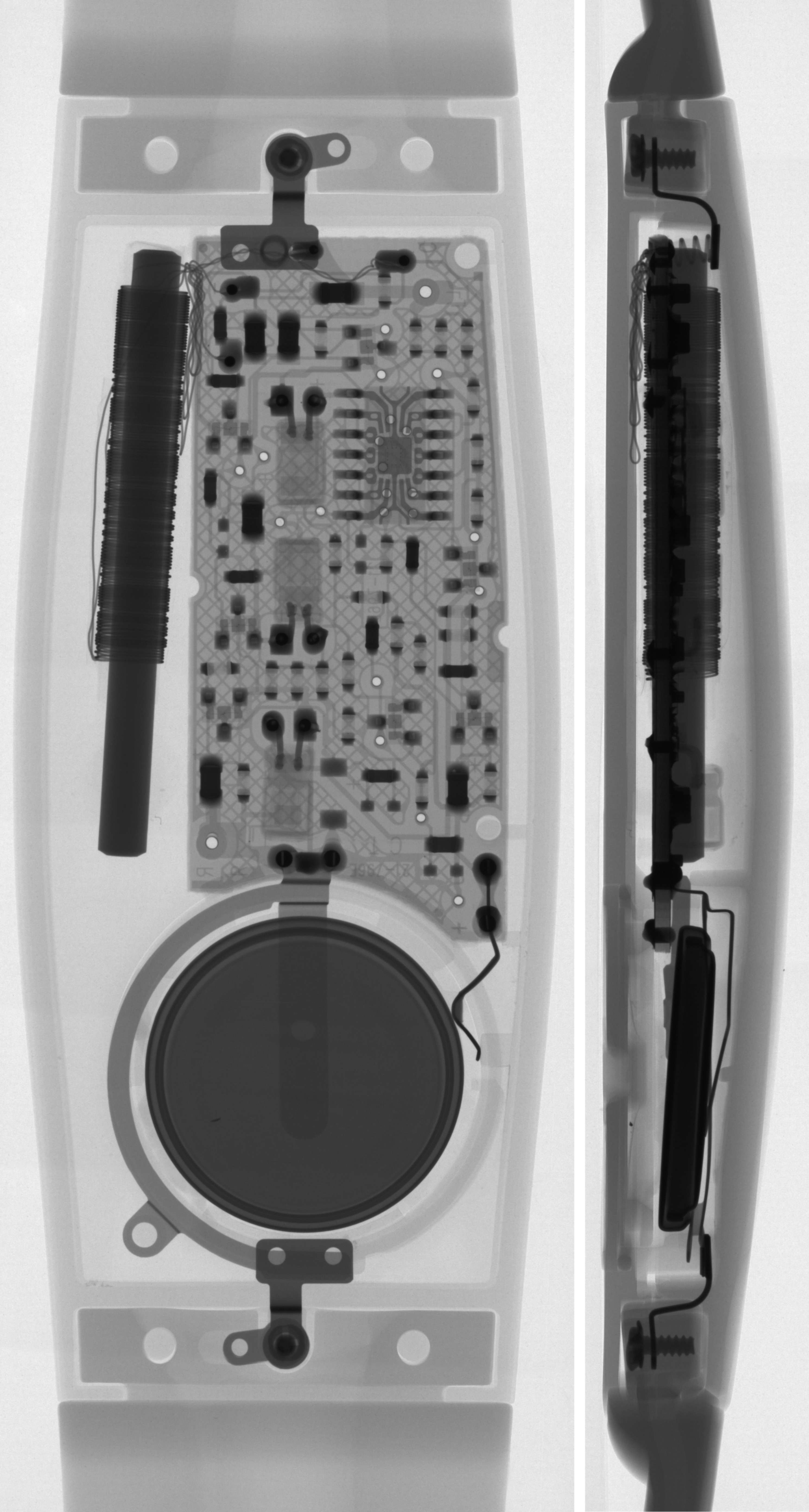 X-ray image (front and side view) of a heart rate monitor´s sensor belt.